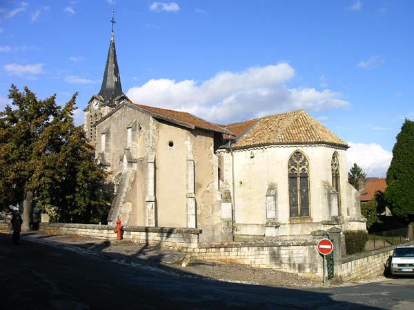 Church Saint Julien de Brioude in Pont-Saint-Vincent.